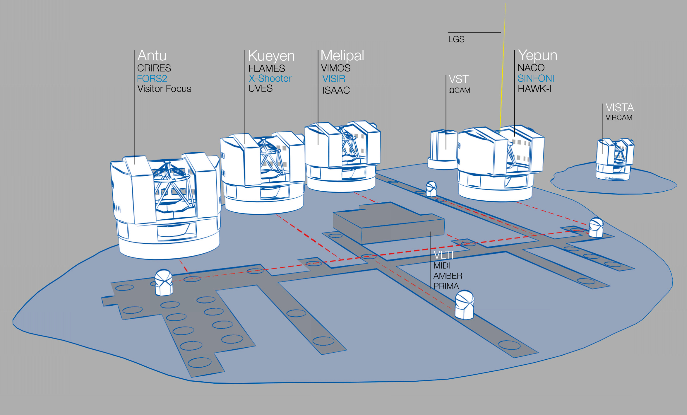 The Paranal Observatory telescopes and instruments.